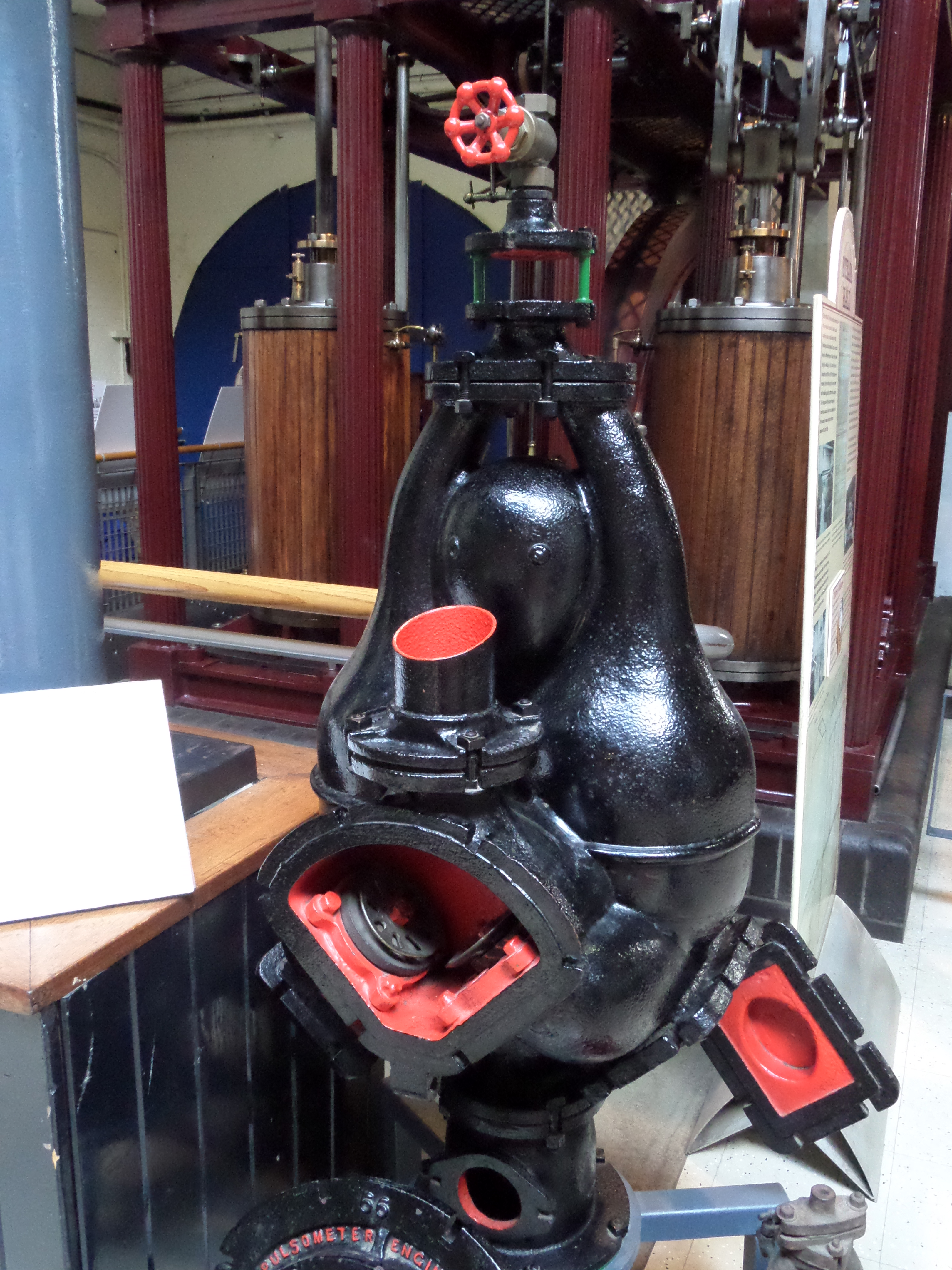 Pulsometer pump at the Kew Bridge Steam Museum. This example originally came from Fobney Waterworks, Reading, where it was used to drain filter beds.